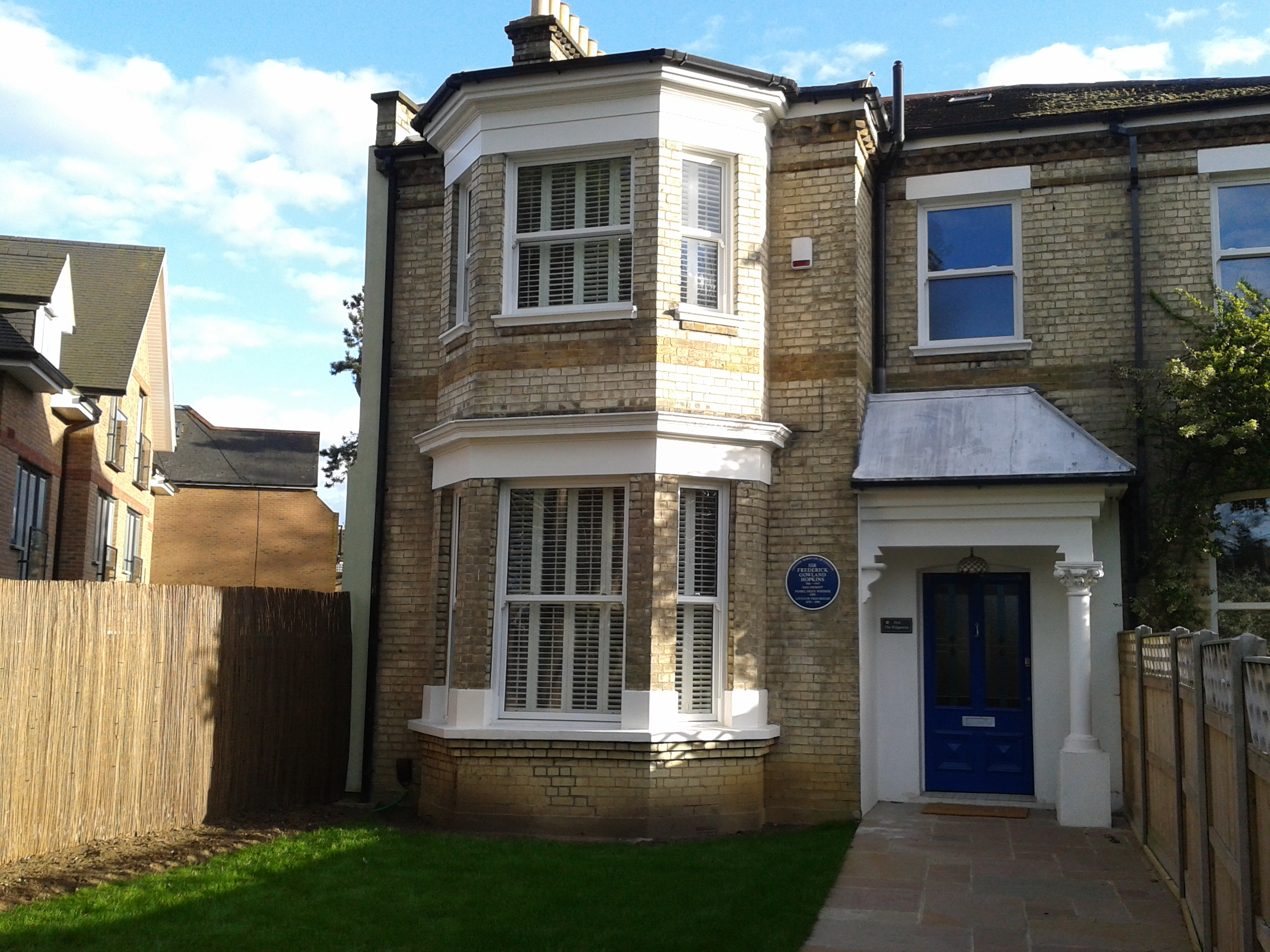 Sir Frederick Gowland Hopkins plaque in Enfield